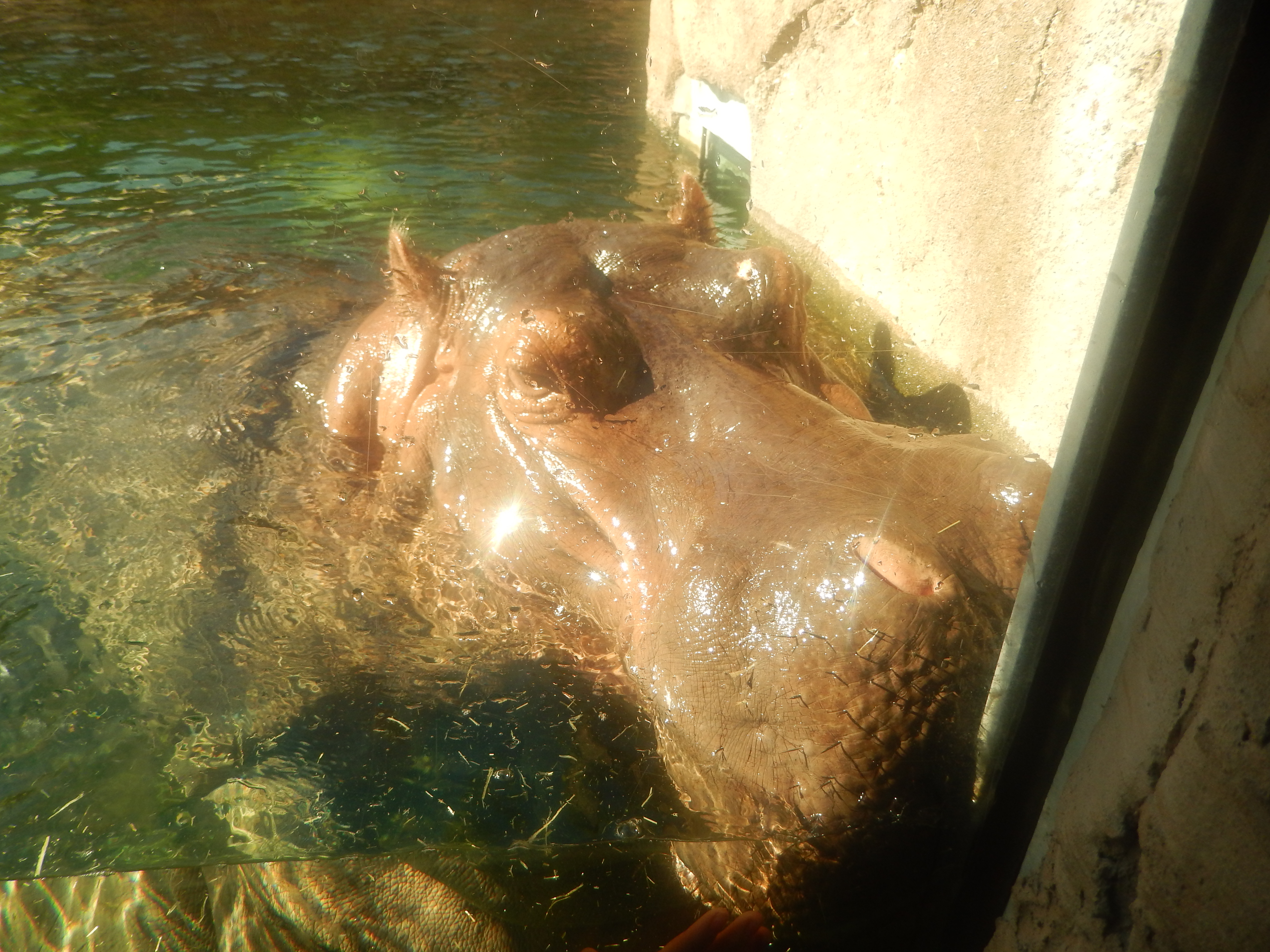 I took photo of hippopotamus coming to the surface for air at San Antonio Zoo, with Nikon camera.